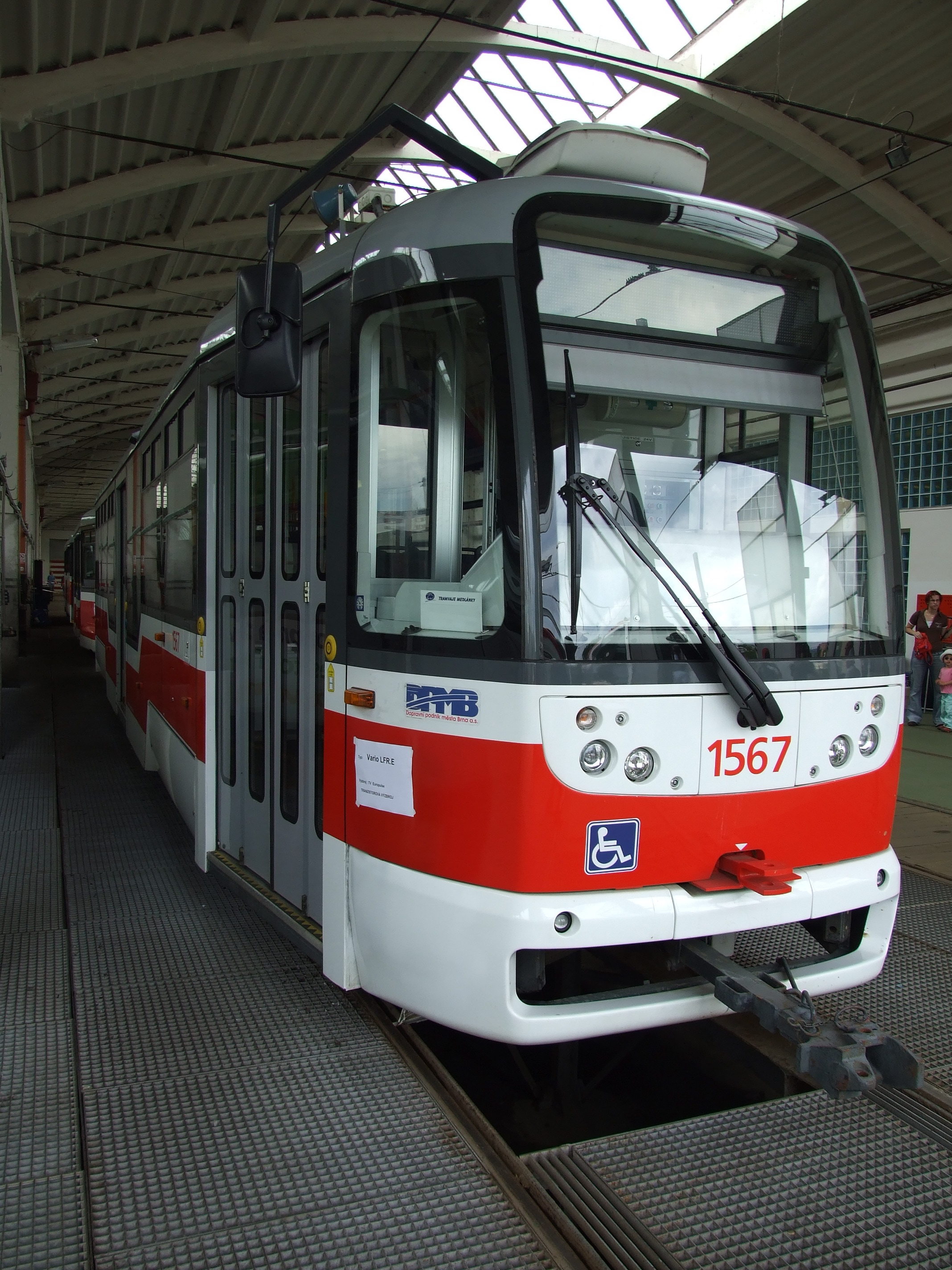 Tram model VarioLF in Brno Medlánky tram depothelp